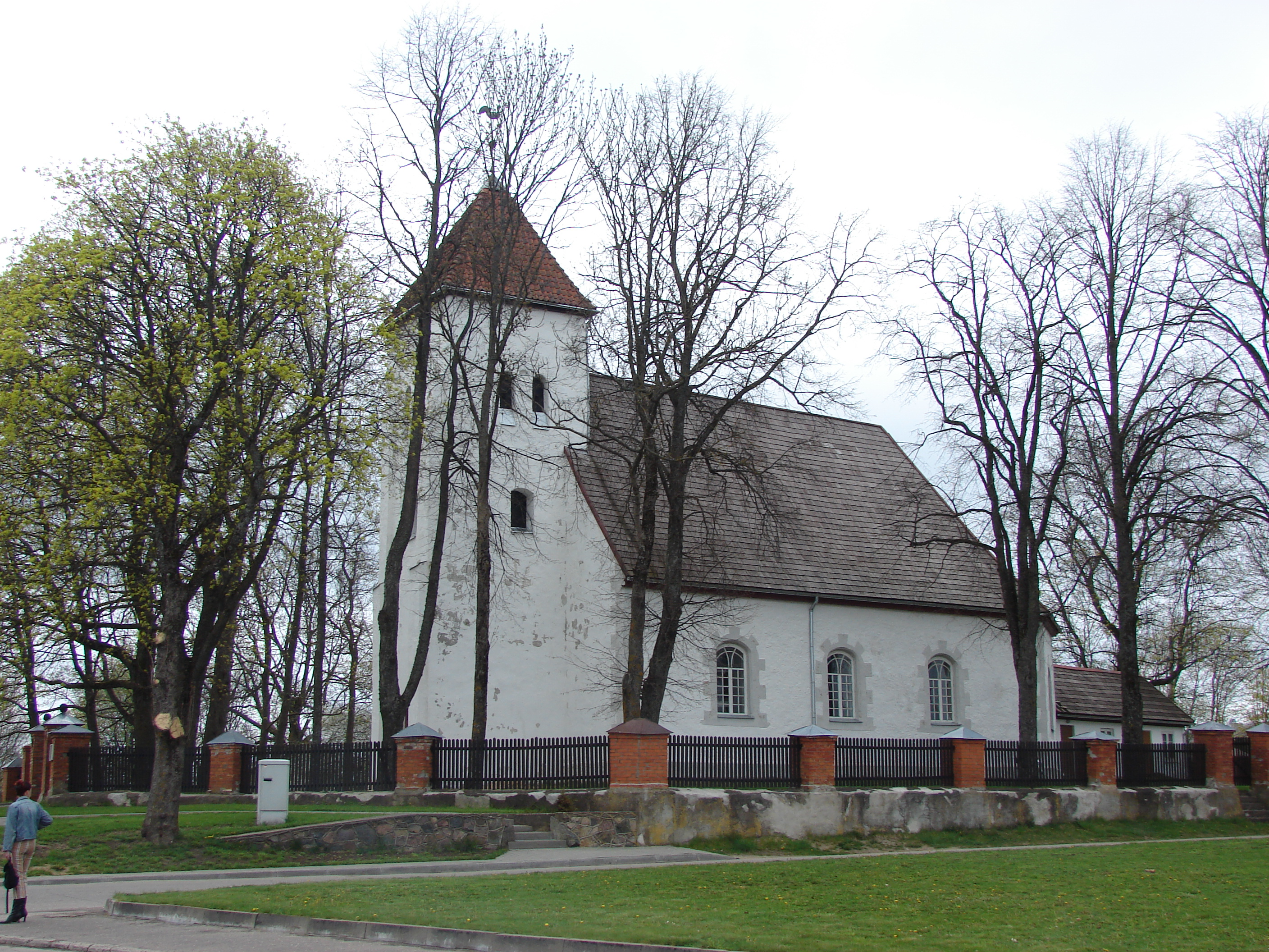 Valdemārpils Evangelical Lutheran ChurchLatviešu: Valdemārpils evaņģēliski luteriskā baznīca (1646.), Lielā iela 2, Valdemārpils